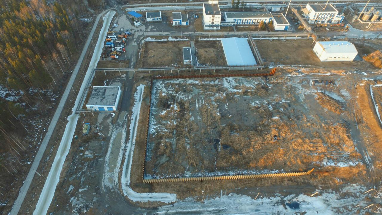 The waste card was covered in sand, with fence, Krasny Bor, 2015